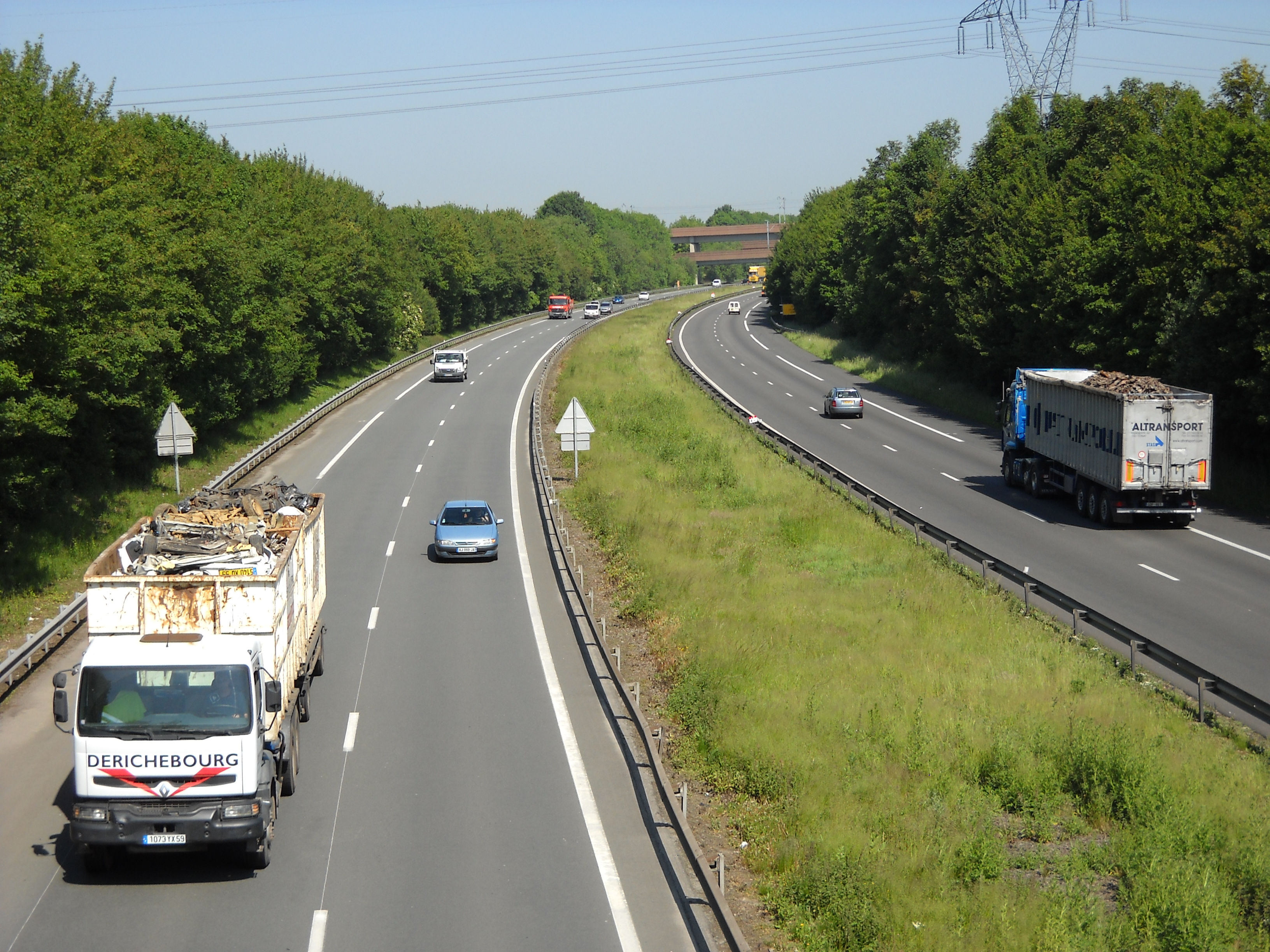 Motorway A23 in Péronne-en-Mélantois, Nord, France.